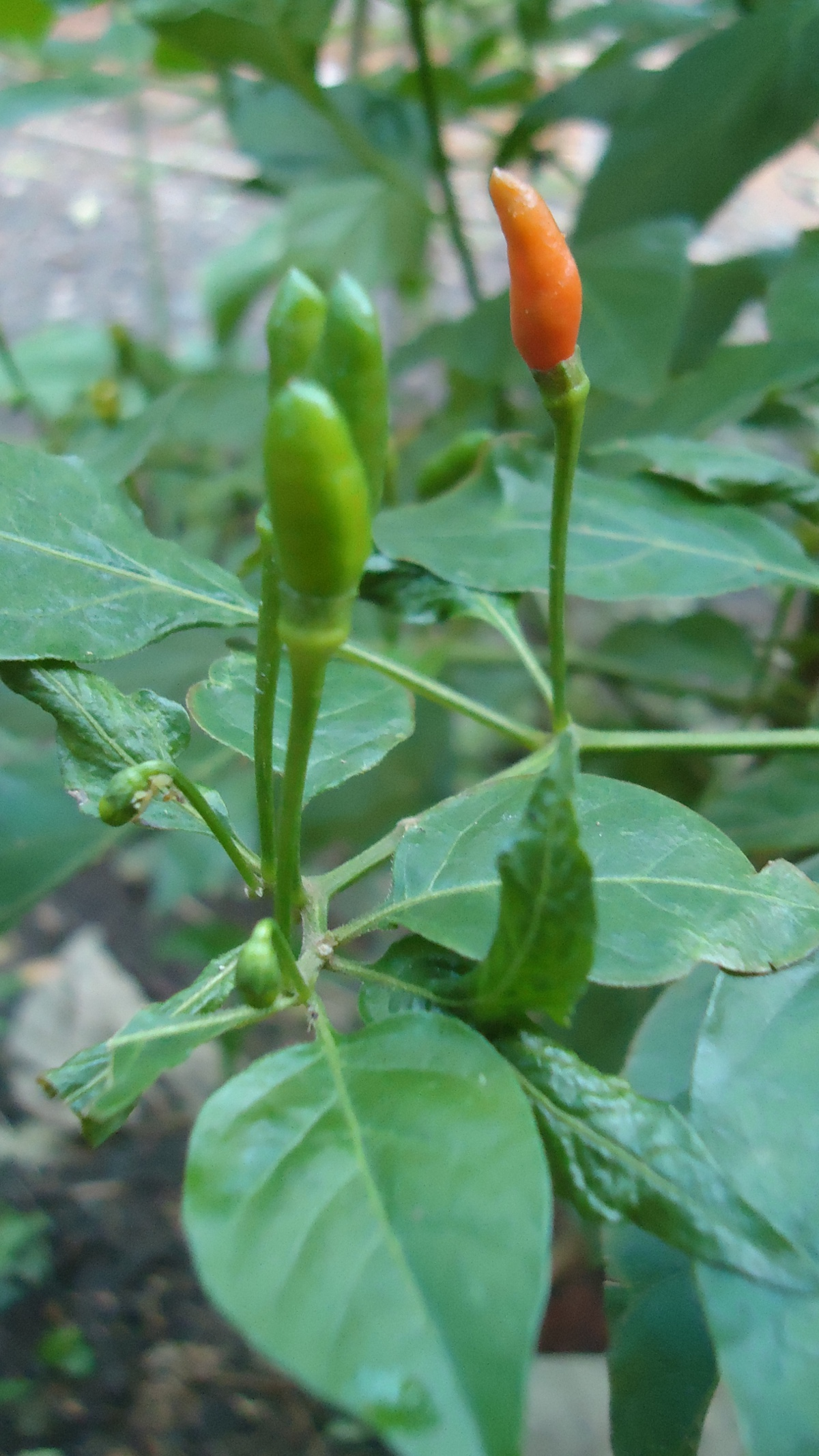 Capsicum frutescens (Siling labuyo)